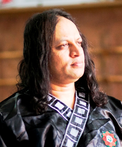 Grand Master Dr. MAK Yuree Vajramunee in 2015.